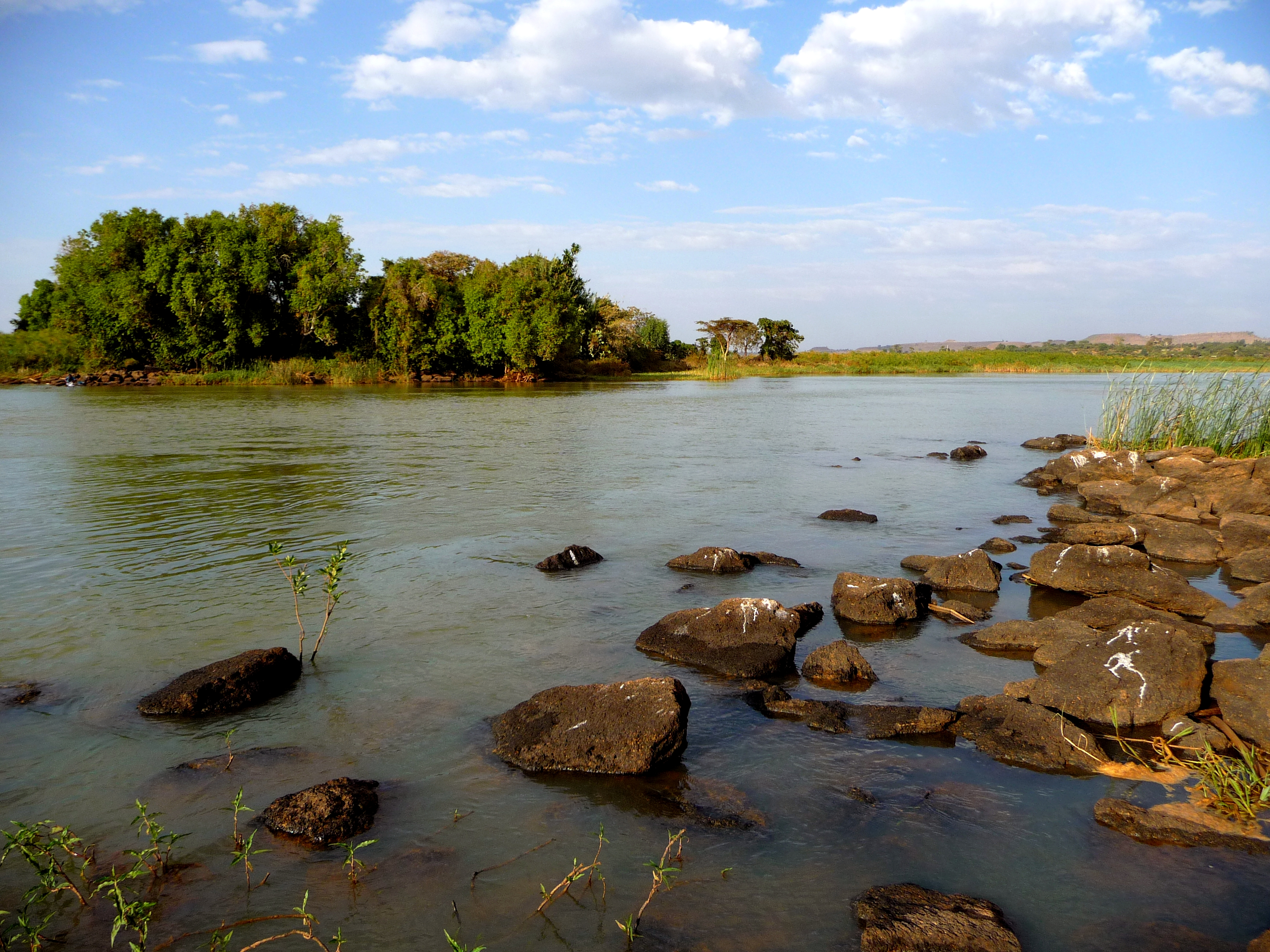 Beginning of the Blue Nile River by its outlet from Lake Tana (Amhara Region, Ethiopia).